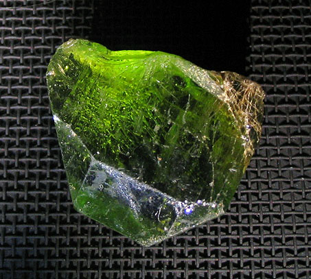 Olivine. Photograph taken at the Natural History Museum, London.